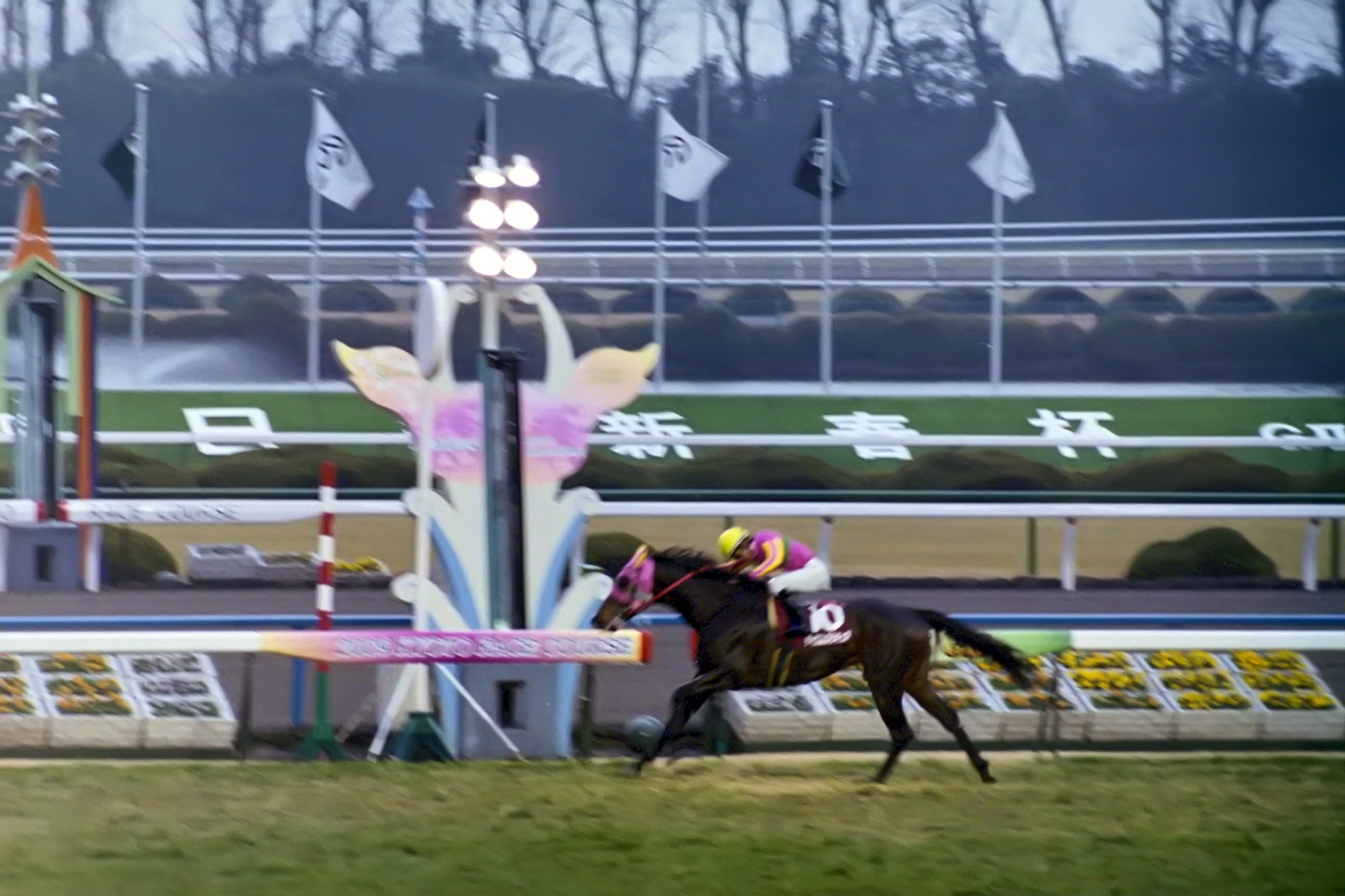 T M Precure at the 56th Nikkei Shinshun Cup